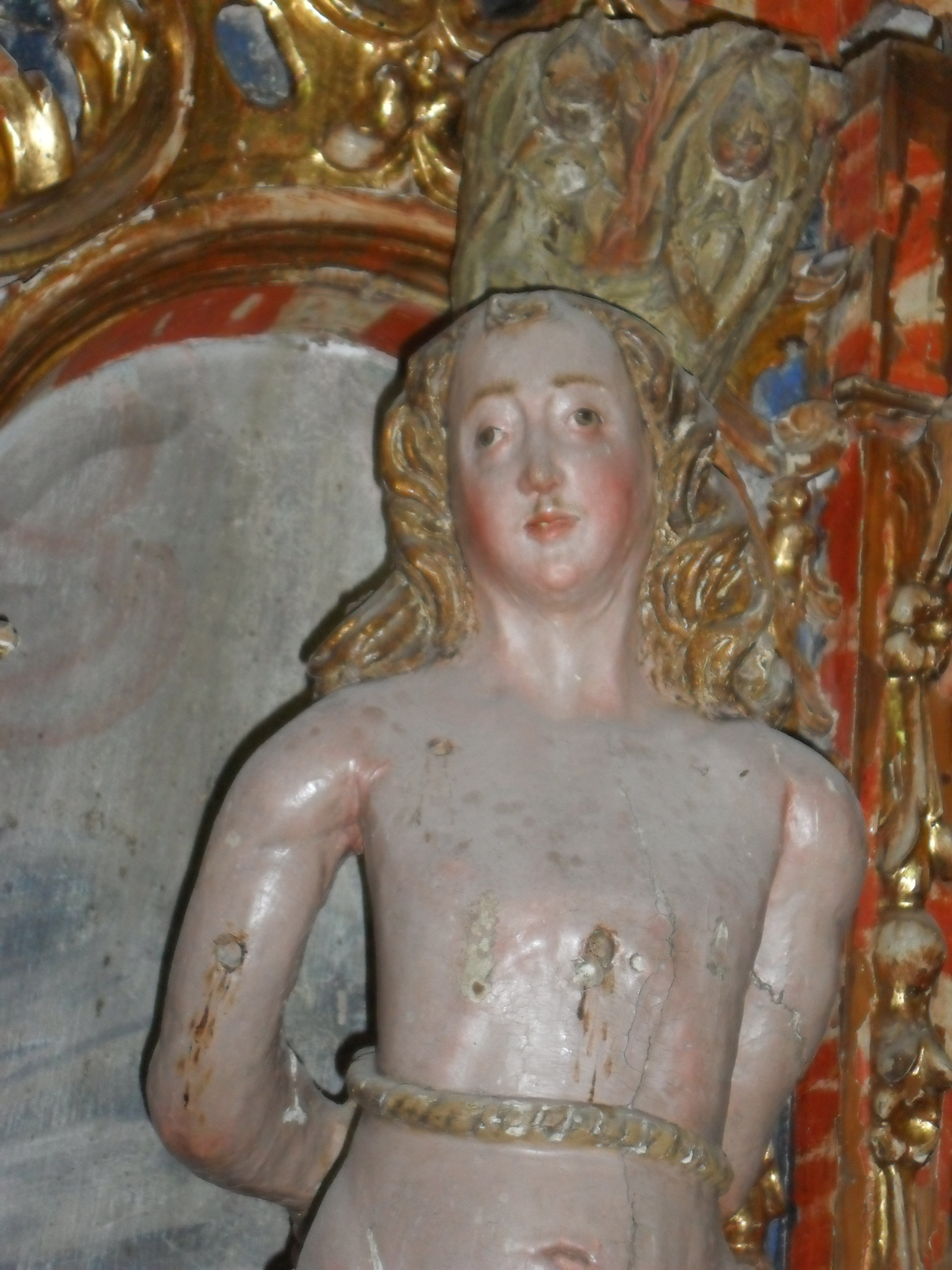 Saint Sebastian Gothic polychromatic wood carving XIV. Santibáñez de Valcorba, Valladolid.Spain